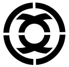 Chichibu Saitama chapter